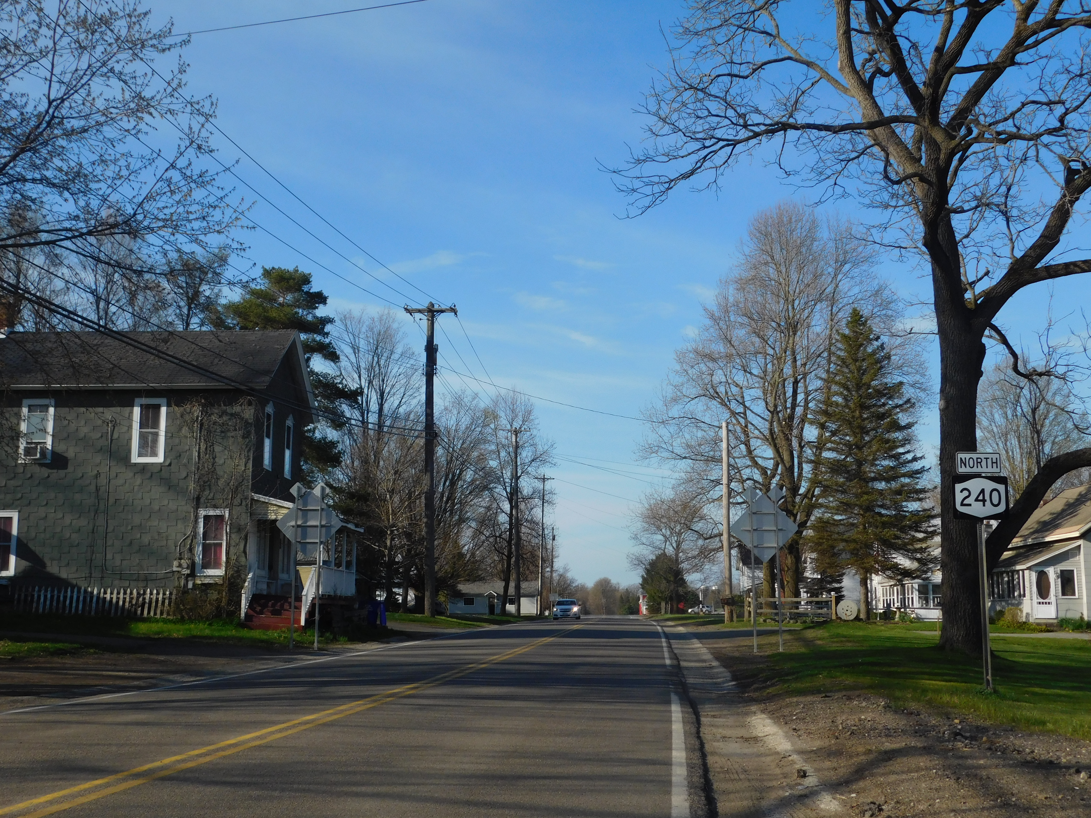 New York State Route 240 northbound in East Concord, New York.